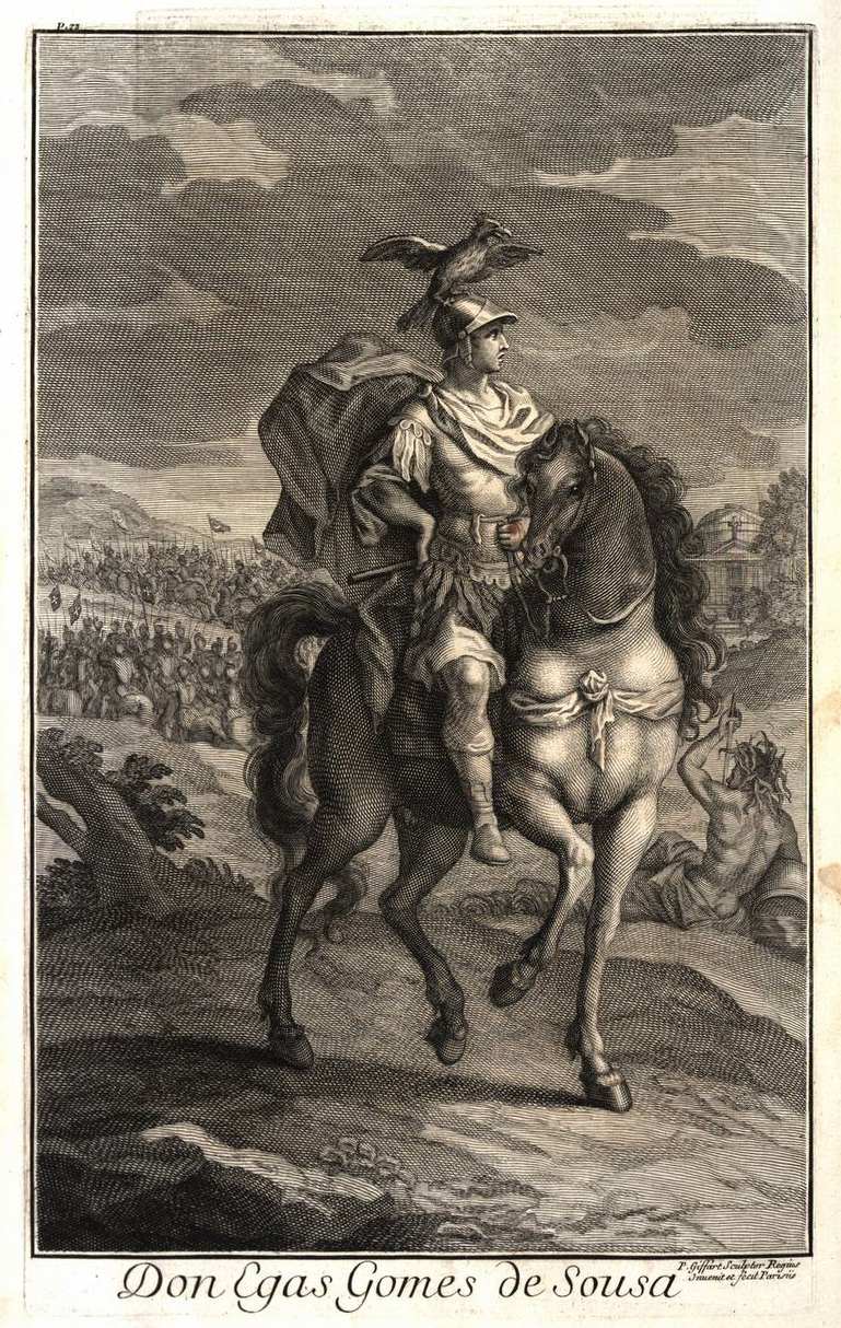 Egas Gomes de Sousa (1035 -?), medieval Portuguese nobleman